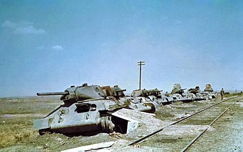 Title: Woroschilowka-Stalingrad, zerstörte sowjetische Panzer Extra information: Bahnstrecke Woroschilowka-Stalingrad.- zerstörte sowjetische Panzer T-34 Factual corrections and alternative descriptions are encouraged separately from the original description. Additionally errors can be reported at this page to inform the Bundesarchiv. Original historic description: Sowj. Panzer wurden beim Ausladen von der Bahn überrascht, Sommer 1942, an der Strecke Woroschilowka-Stalingrad, 6. Armee